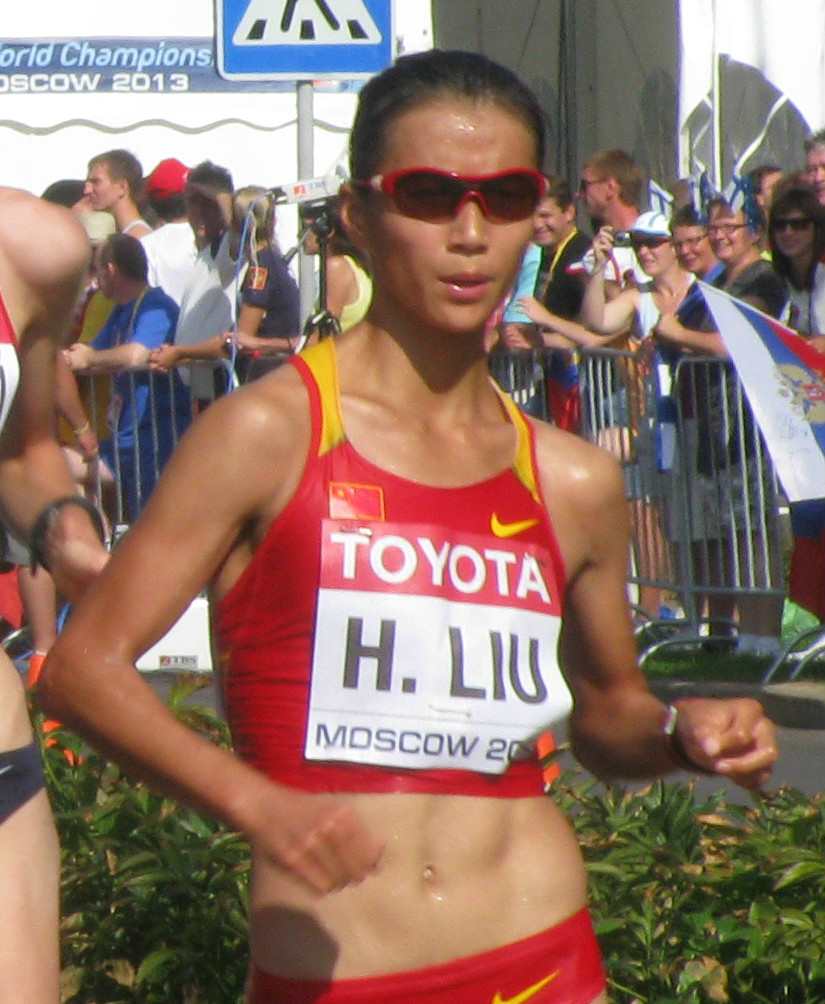 Liu Hong in action during Women's 20 kilometres walk at the 2013 World Championships in Athletics